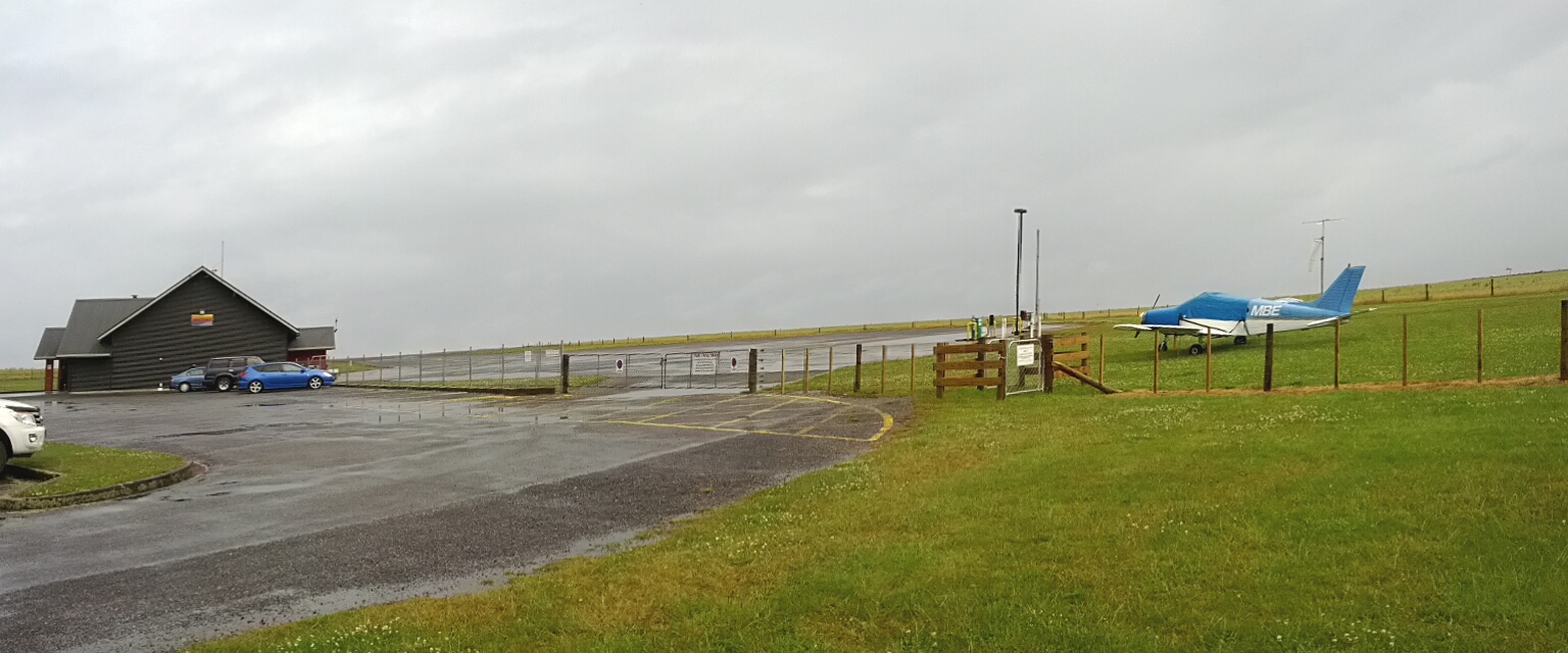 Panoramic photo showing the terminal building and part of the runway of the Westport airport in New Zealand.